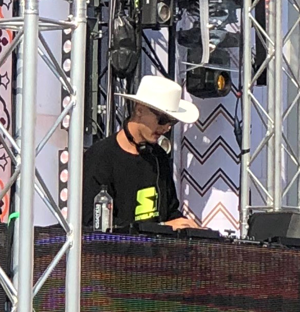 American dj and producer MAKJ playing live at Airbeat One Festival 2019 in Neustadt-Glewe, Germany.